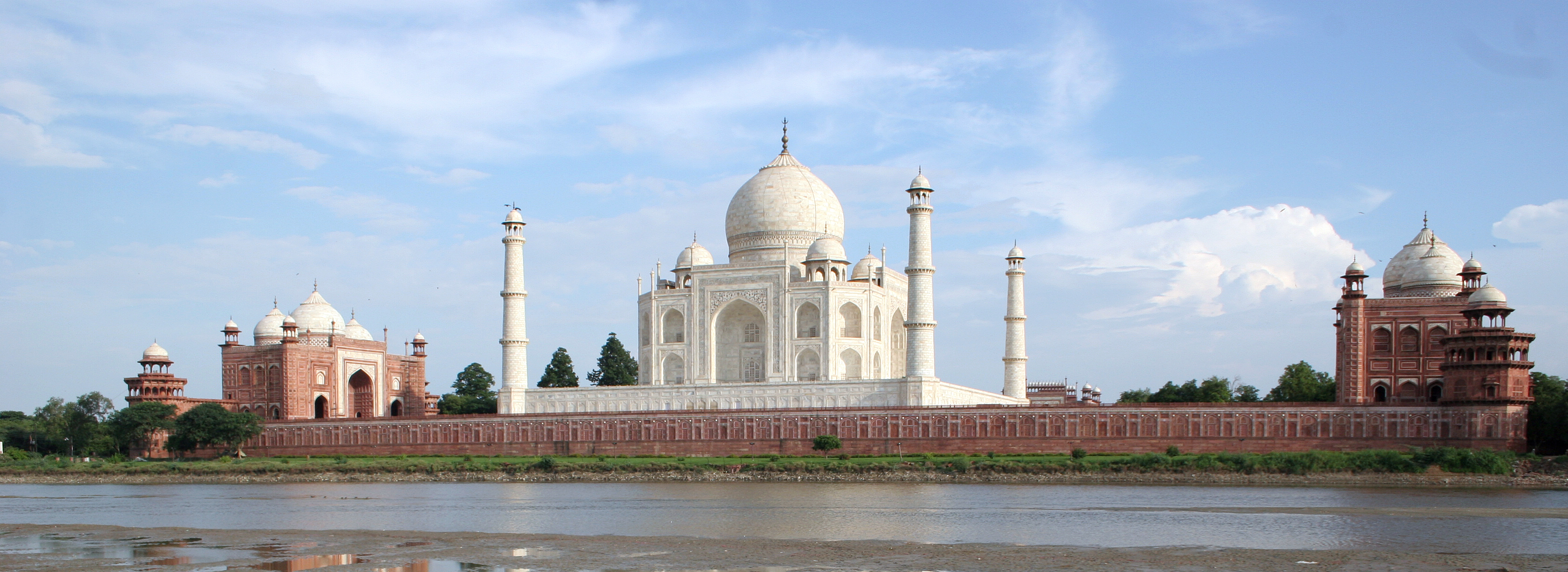 Taj Mahal world heritage site in Agra, India.